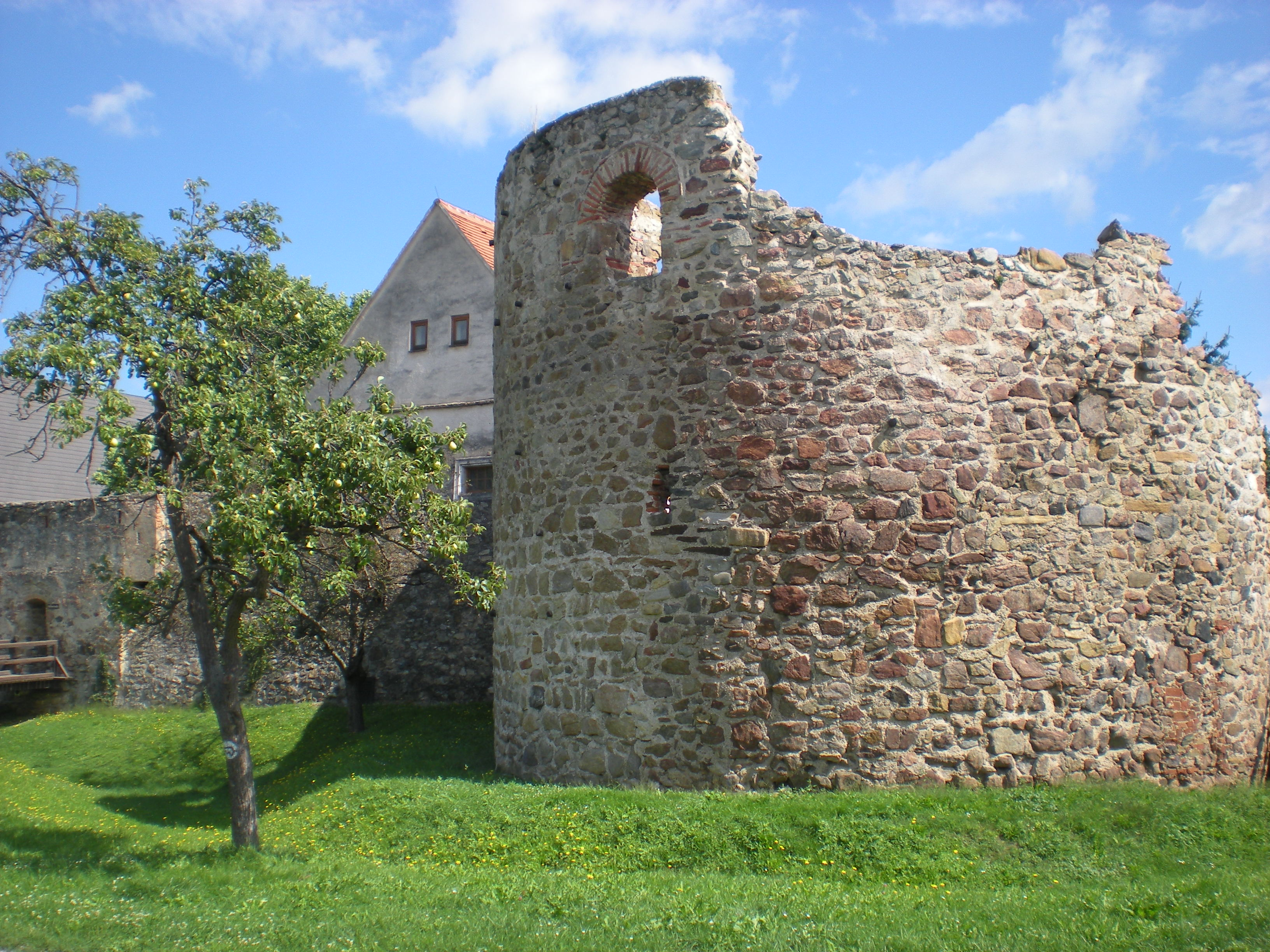 Horseshoe-shaped tower, part of the western wall of Roman fortress Favianis, Mautern an der Donau, Lower Austria